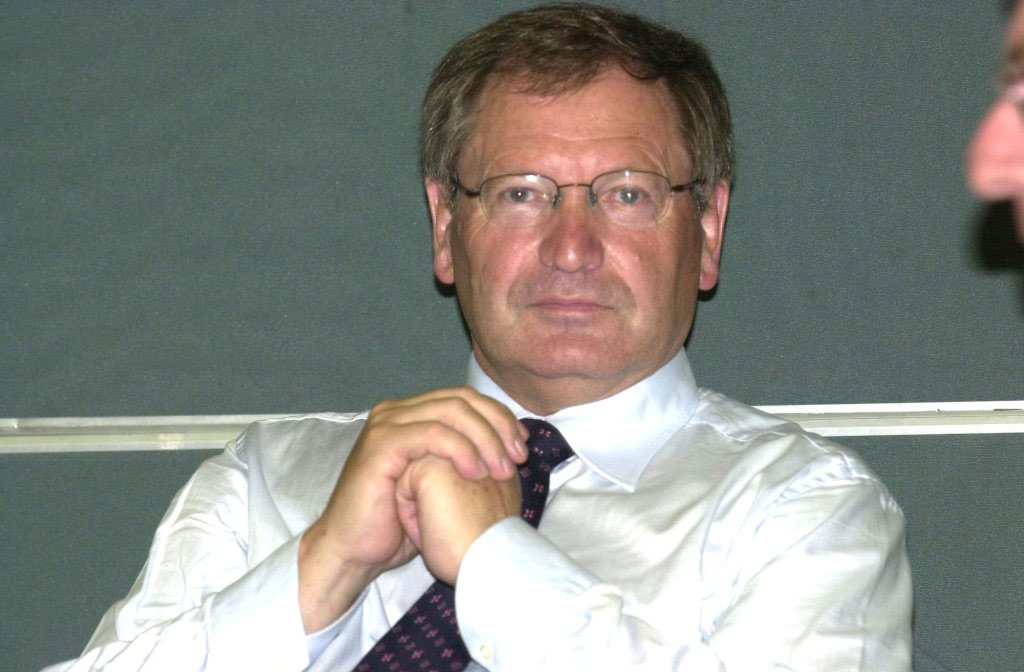 Yvan MAININI